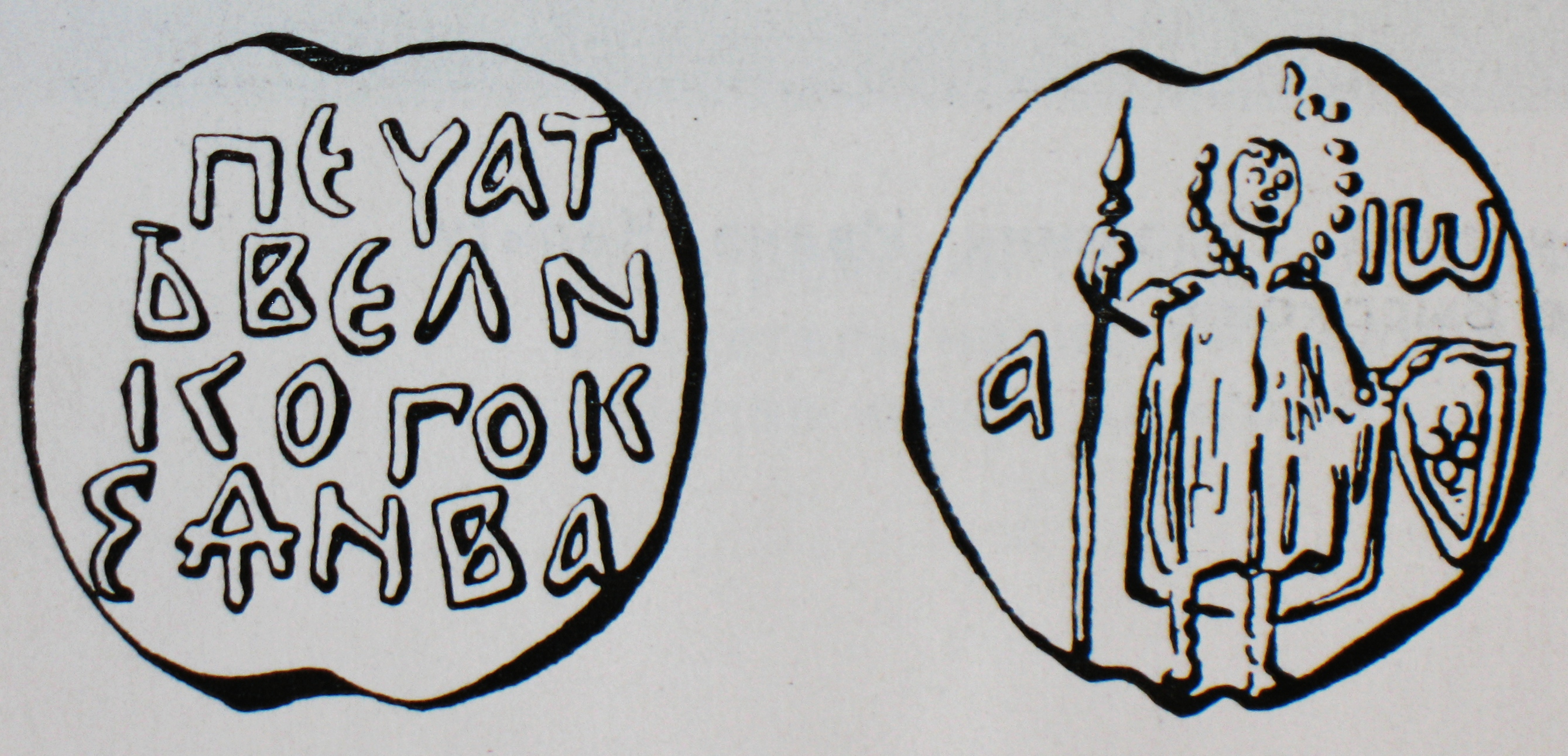 The seal of Ivan II of Russia. Печать князя Ивана Ивановича Красного (Ивана Второго), отца Дмитрия Донского.